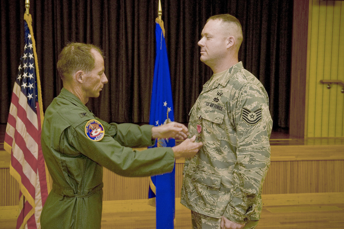 Tech. Sgt. Rory Stark receives a Bronze Star medal from Col. David Stilwell July 2, 2010 at Misawa Air Base, Japan, for his actions in Afghanistan. Sergeant Stark is an explosive ordnance disposal technician assigned to the 35th Civil Engineer Squadron and Colonel Stilwell is the 35th Fighter Wing commander.